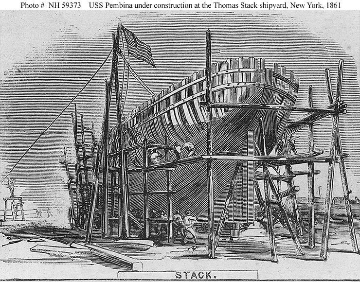 USS Pembina (1861-1865) Line engraving published in "Harper's Weekly", July-December 1861, depicting the ship under construction at the Thomas Stack shipyard, New York City. Pembina was launched on 28 August 1861.